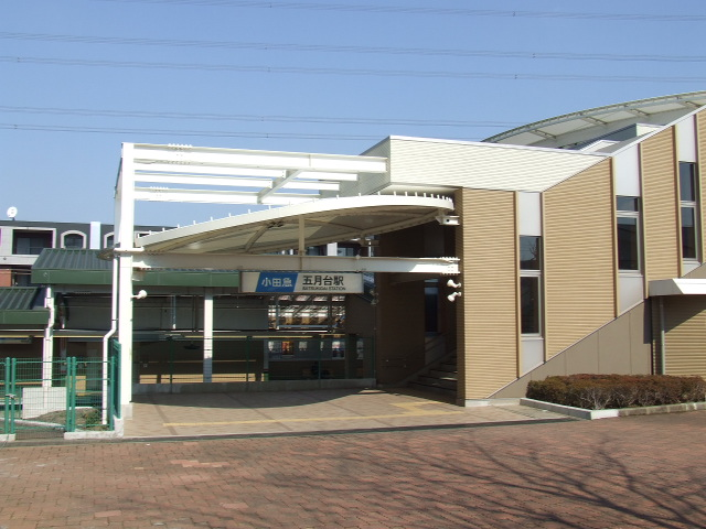 South building of Satsukidai station,OER-TAMA-LINE,Odakyu Electric Railwey,Japan